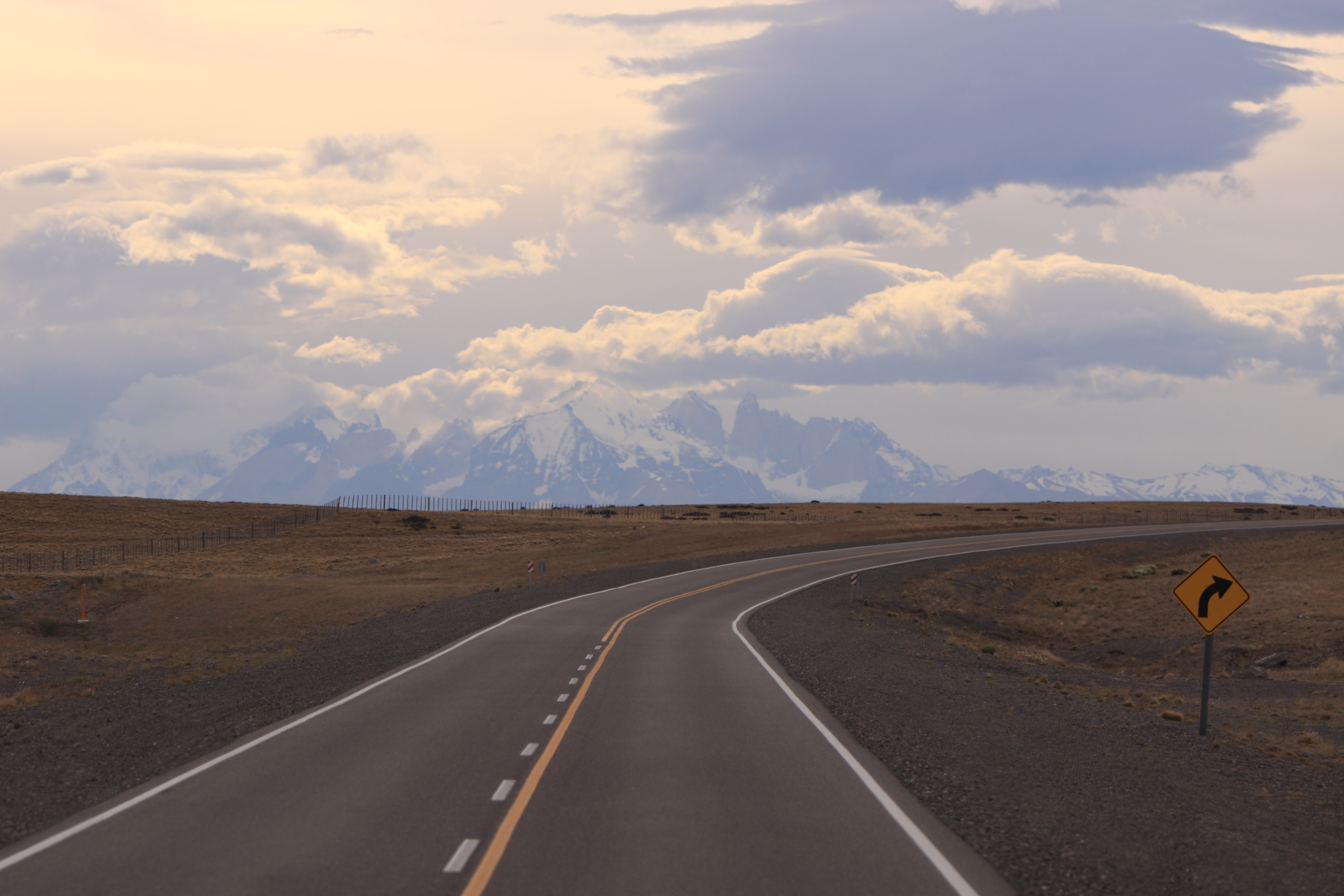 Please, have this description accessible to all by translating it in different languages.